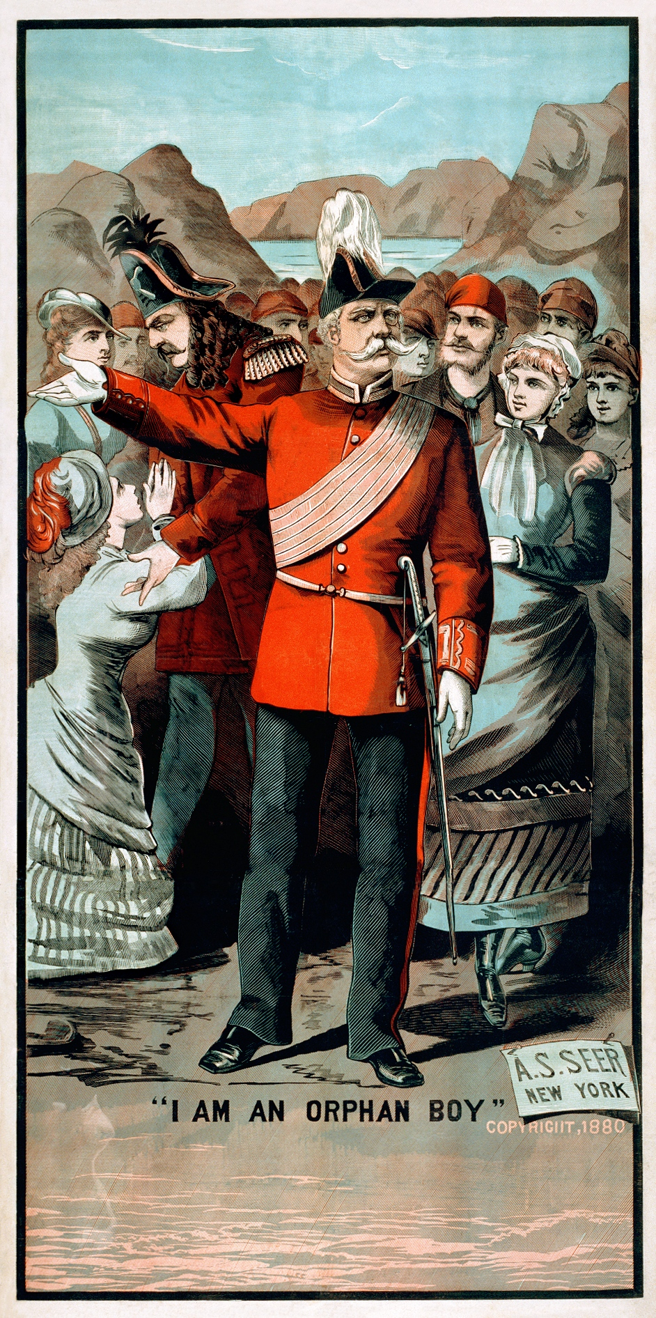 1880 theatrical poster for an American production of The Pirates of Penzance.